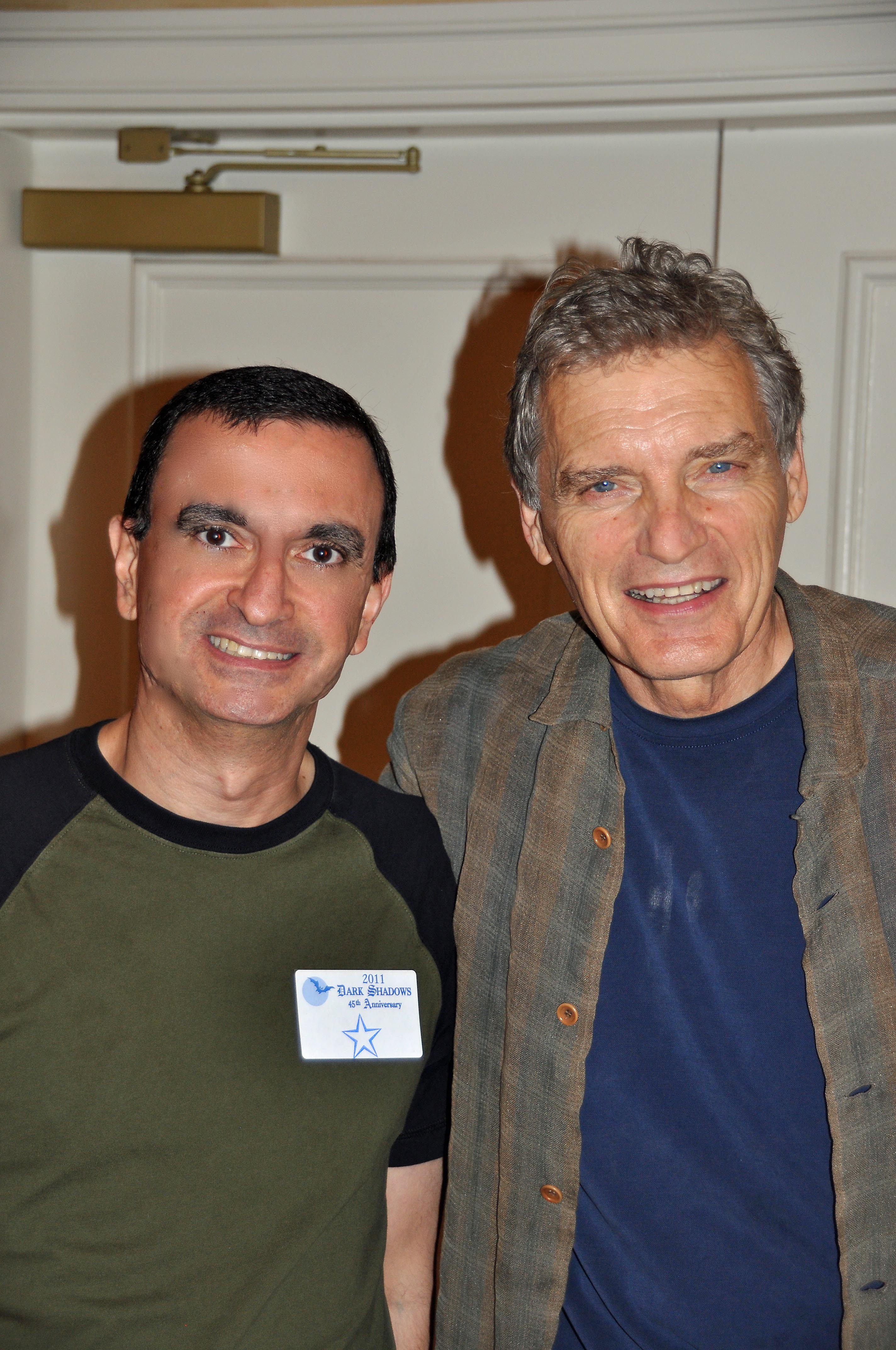 Me with David Selby at The Dark Shadows Festival this afternoon.